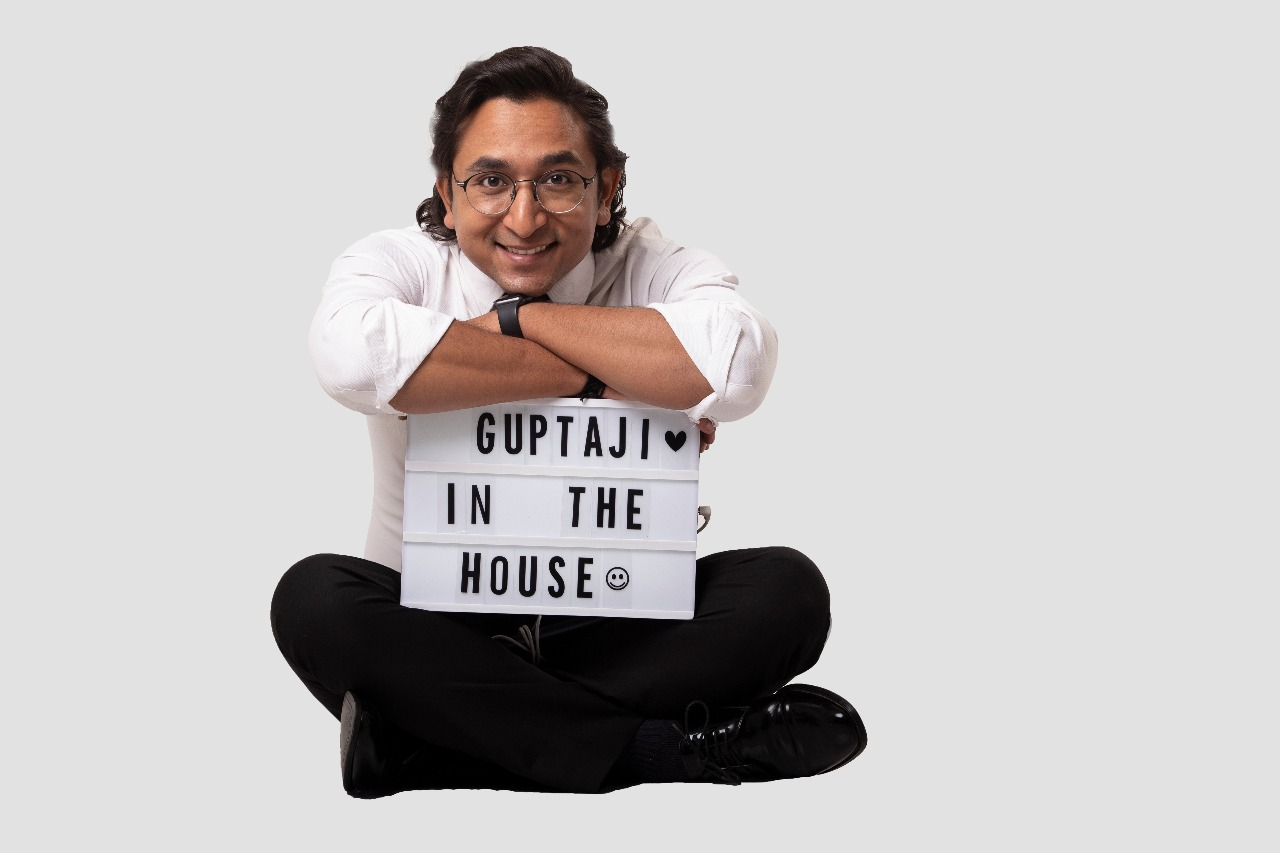 This is picture of Appurva Gupta